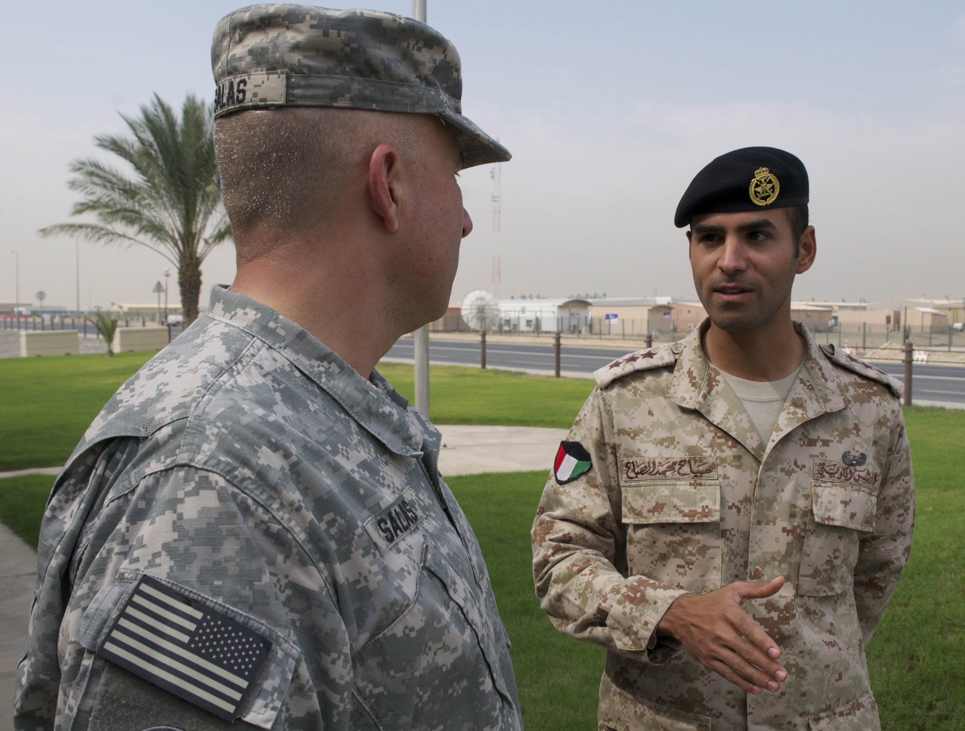 Capt. Sabah M. Al-Sabah, an intelligence officer for the Kuwait Ministry of Defense’s Directorate of Military Intelligence, speaks to one of his fellow classmates from the U.S. Military Academy at the conclusion of a video shout-out for the 2013 Army-Navy game. Al-Sabah learned about West Point’s international cadet program while he was attending Mount St. Albans, an all boys Jesuit high school in Washington, D.C., made famous by its alumni such as Apollo astronaut Michael Collins (U.S. Army photo by Sgt. John L. CArkeet IV, 143d Sustainment Command (Expeditionary))